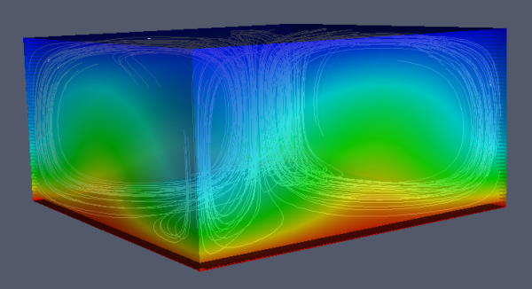 Simulation of 3D Rayleigh-Bèrnard convection with Rayleigh number 10^4 and Prandtl number 1. Temperature is mapped onto the colors of the spectrum, and streamlines are shown in white.